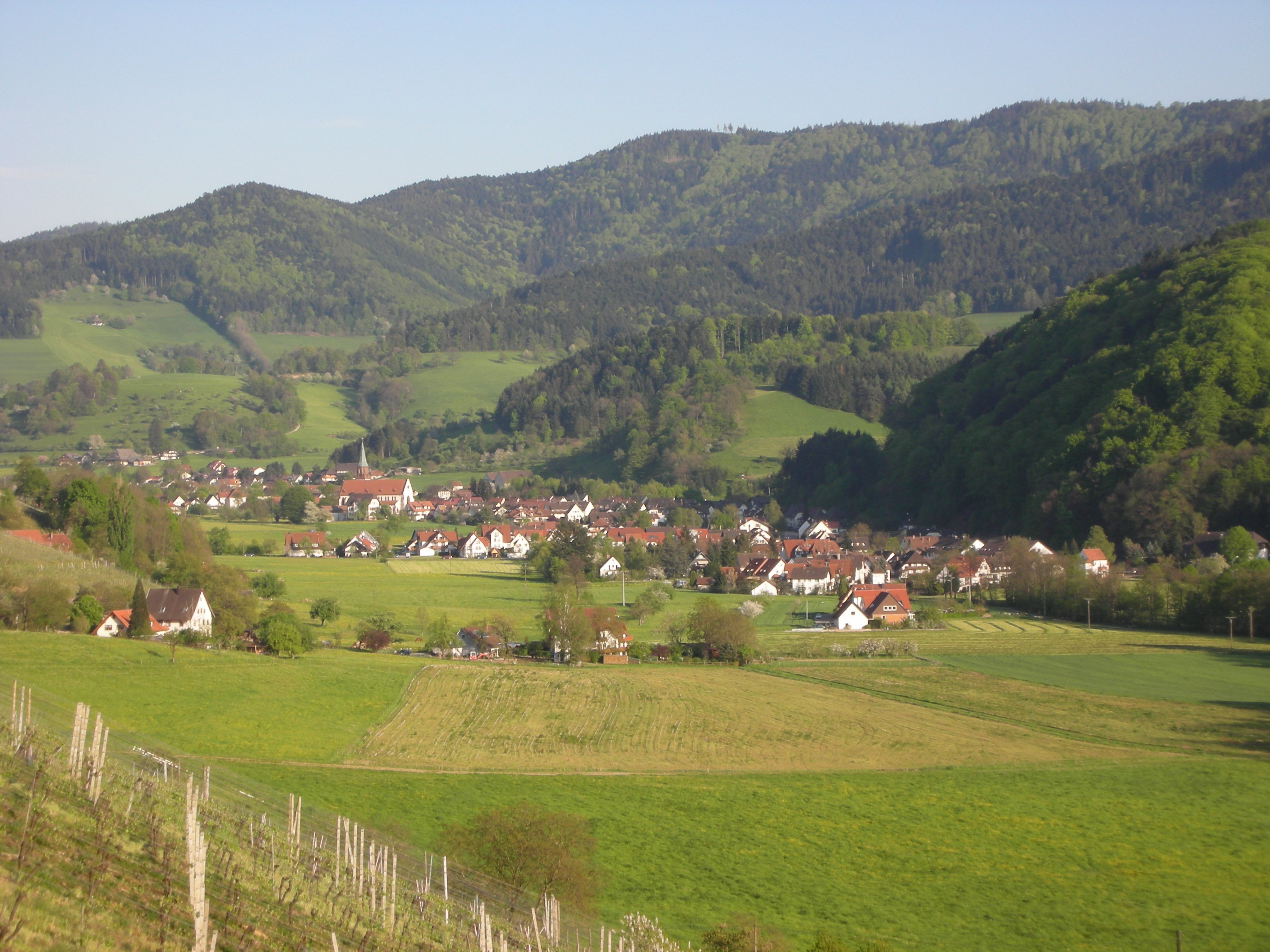 view on Glottertal, a town in the Black Forest